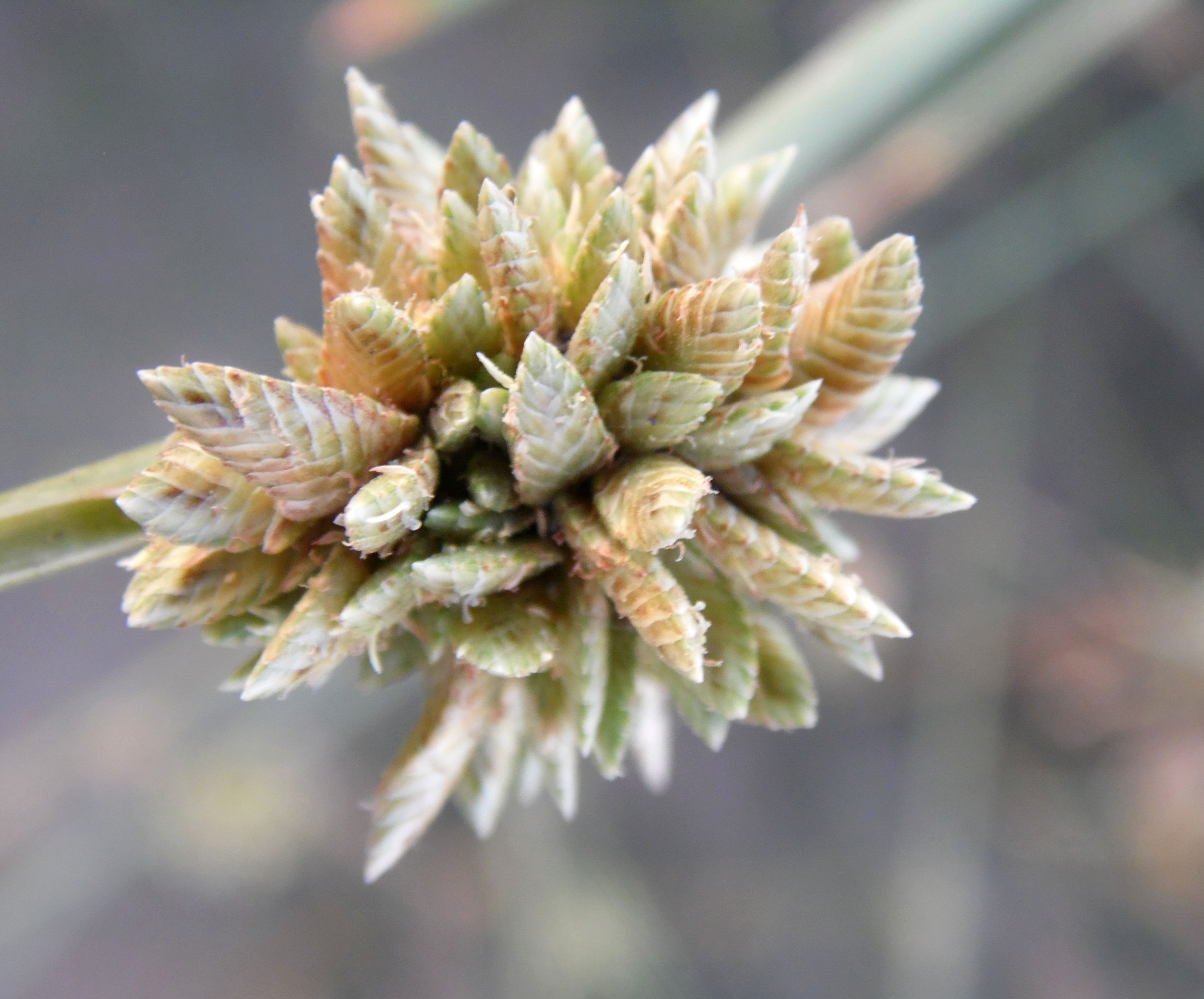 Cyperus laevigatus in Dunas de Maspalomas